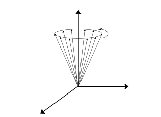 Freqüência de precessão de Larmor.